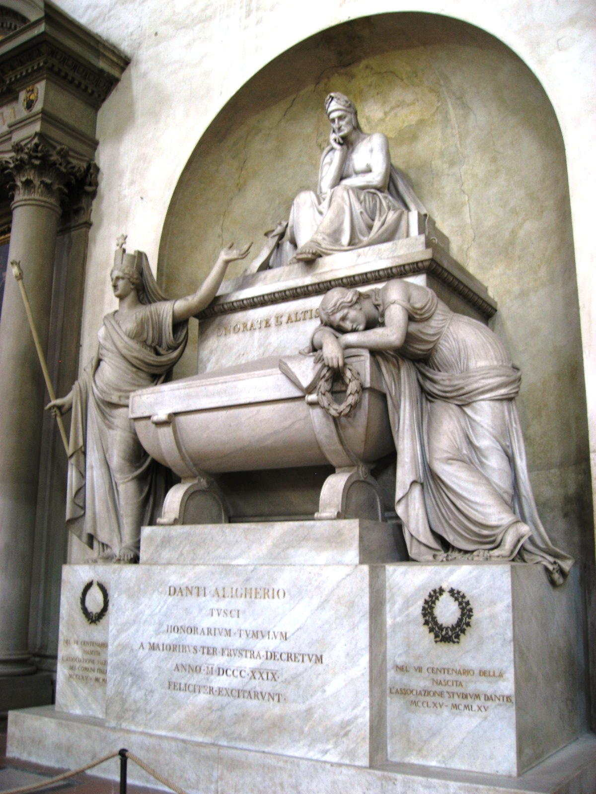 Cenotaph of Dante Alighieri in the Basilica of Santa Croce in Florence.